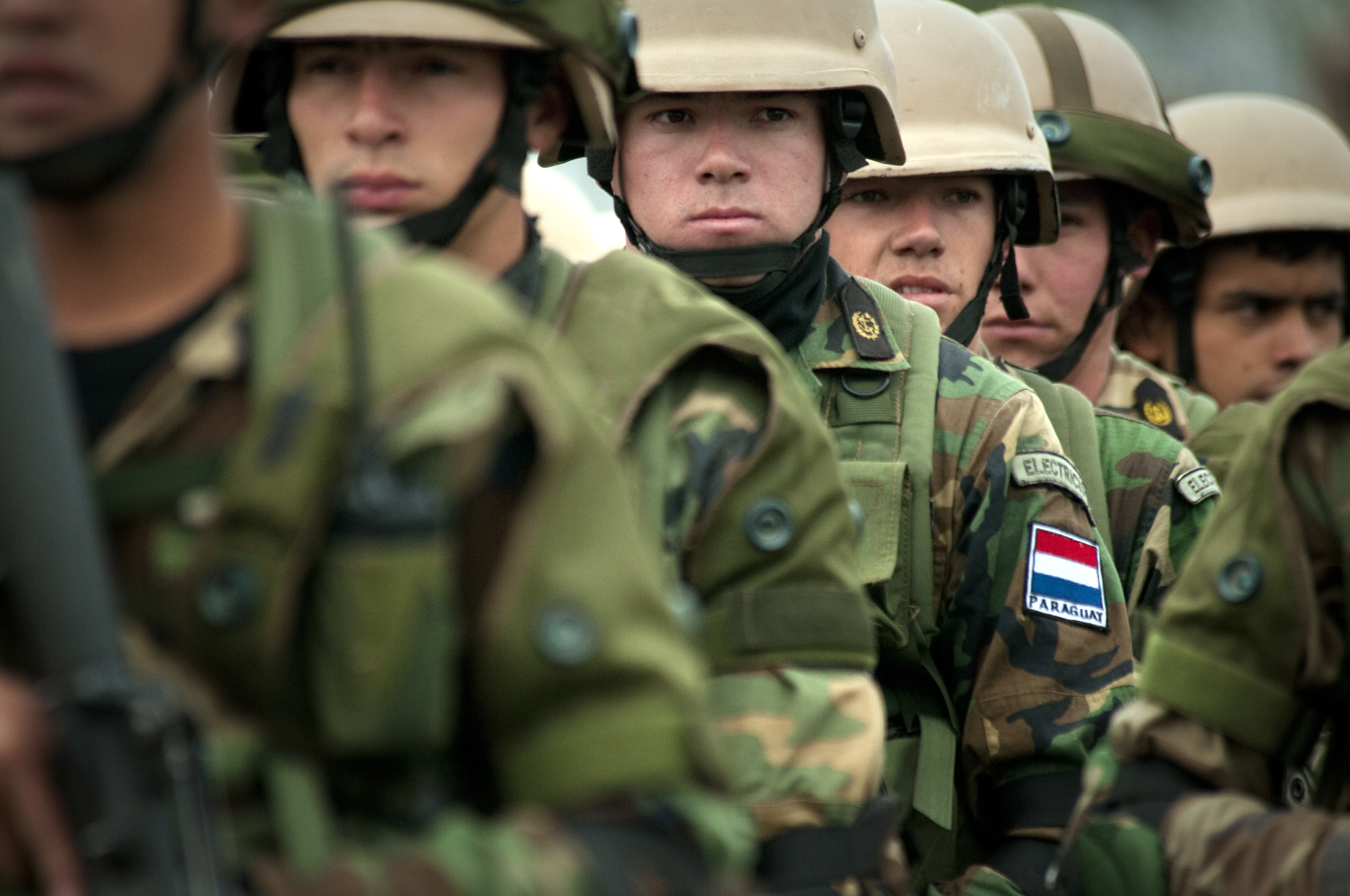 Paraguayan marines stand in ranks after participating in a multinational beach assault during Southern Partnership Station (SPS) at Ancon Marine Base, Peru, July 19, 2010.